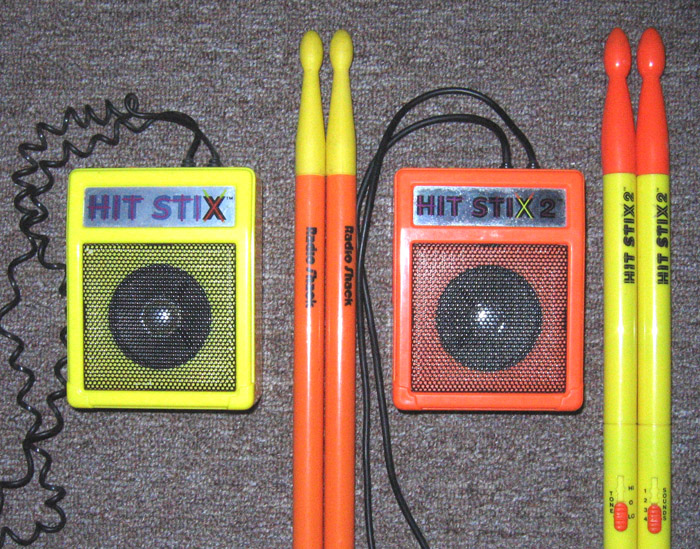 this is a photograph of 'hit stix' and 'hit stix 2' toys. I took this photo myself. Nigel Tufnel